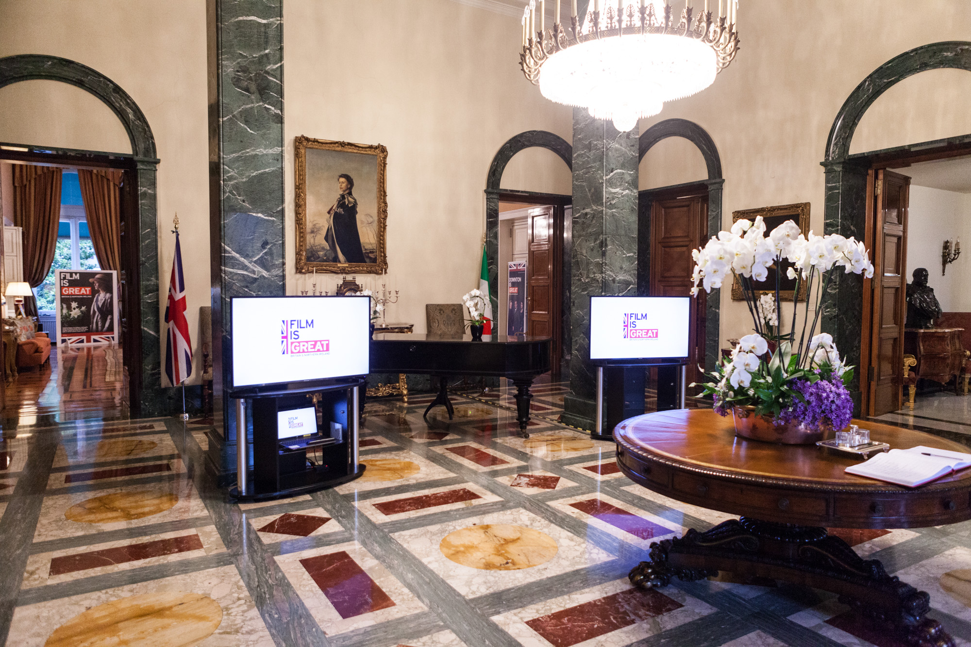 Film is GREAT cocktail